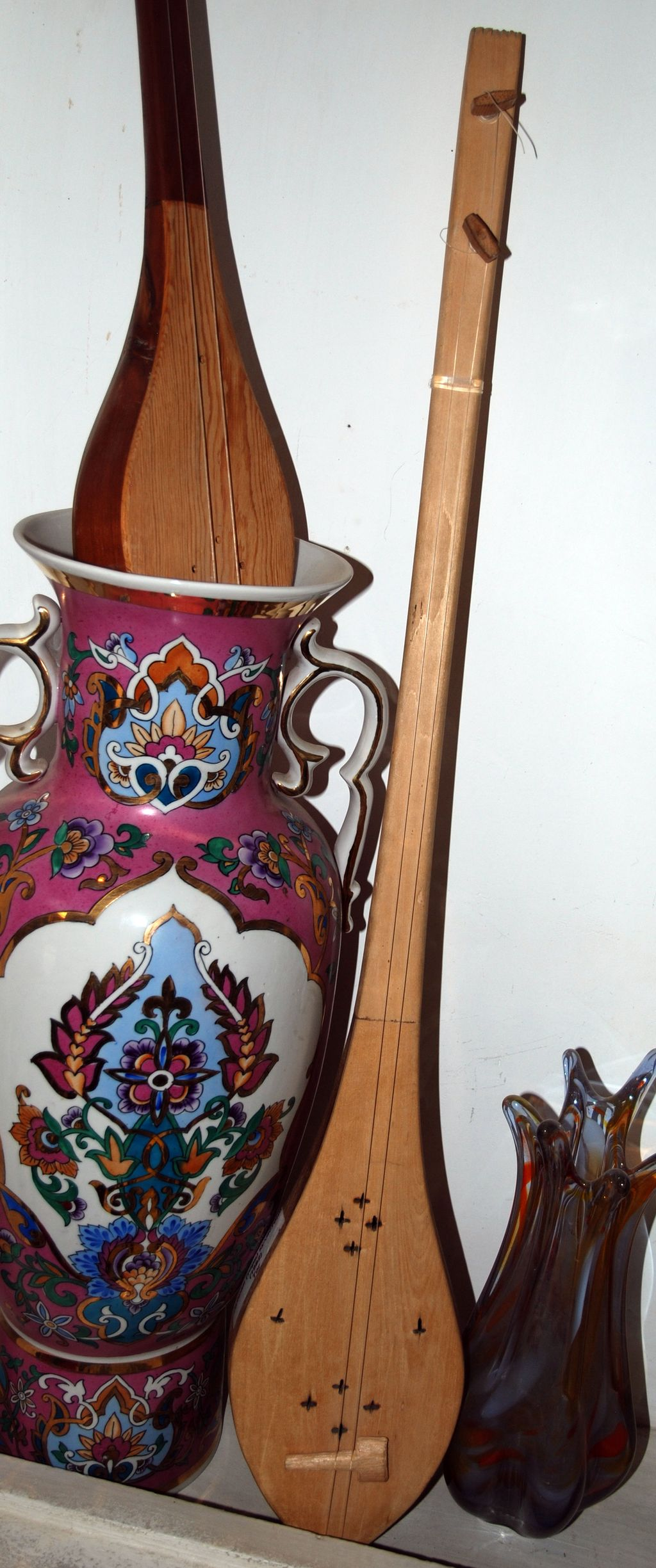 Afghan dambura, Ziyadullo Shahidi Museum, Dushanbe, Tajikistan